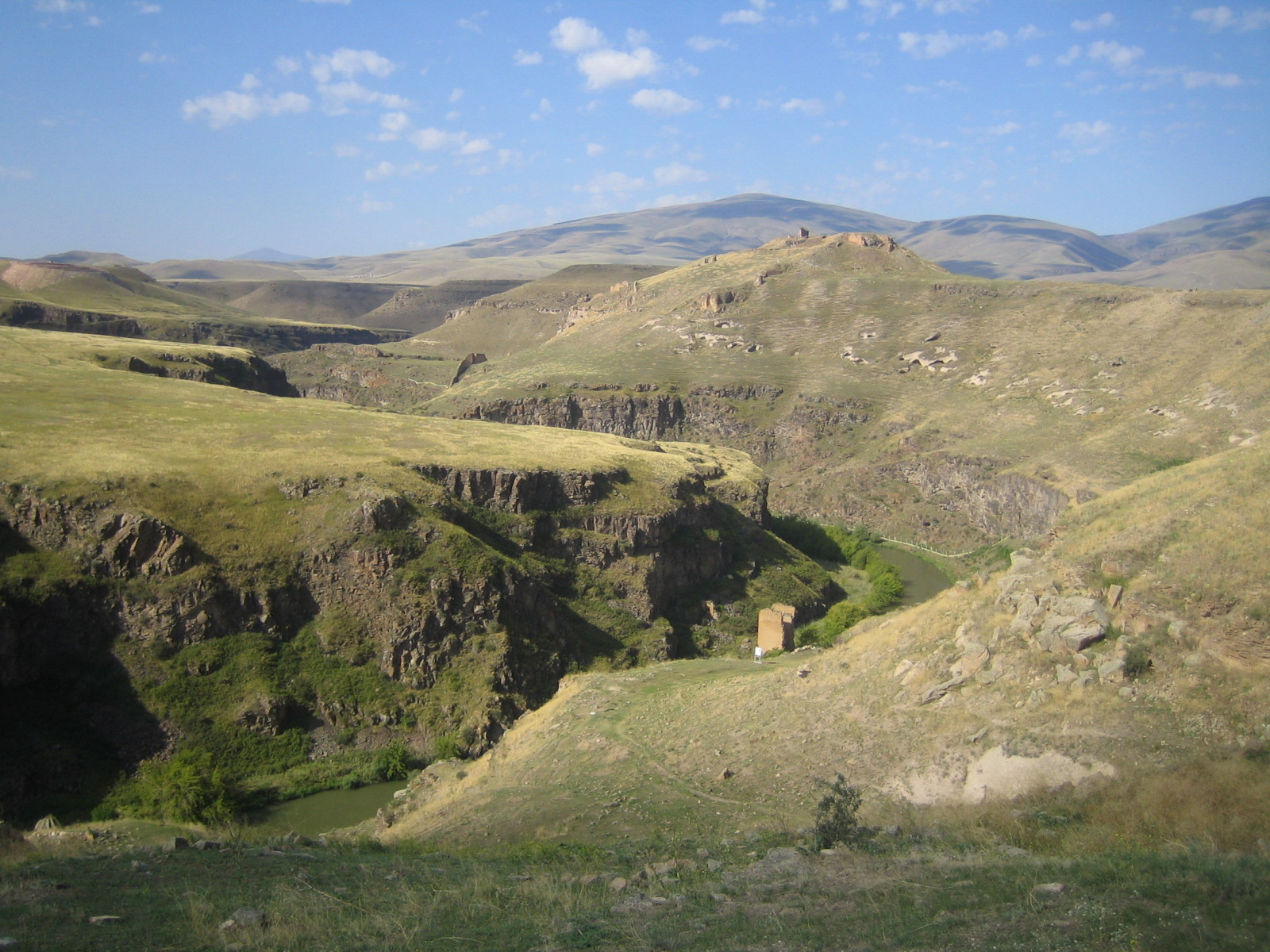 Turkish-Armenian border seen from the Ani ruine field, 40 km east of Kars.